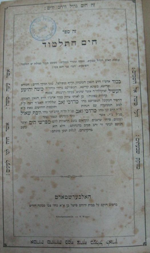 Yam Hatalmud Book, 1st ed. Halbestadt 1861